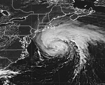 Satellite pic of Hurricane Edouard near the northeastern United States.